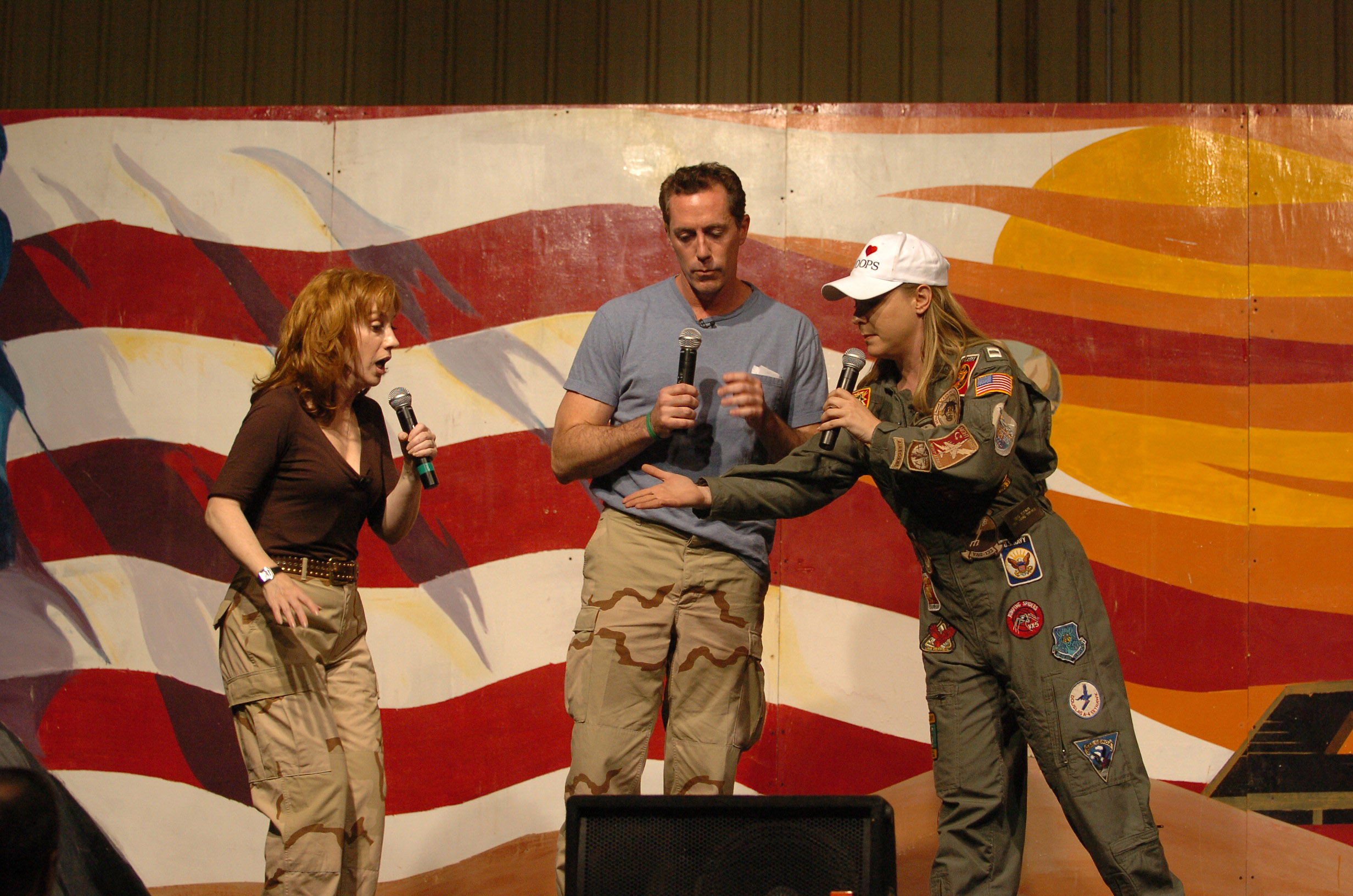 TIKRIT, Iraq (Mar. 17, 2006) -- Kathy Griffin, Karri Turner and Michael McDonald perform an improv skit for Soldiers and Airmen of Task Force Band of Brothers at Contingency Operating Base Speicher in Tikrit, Iraq.